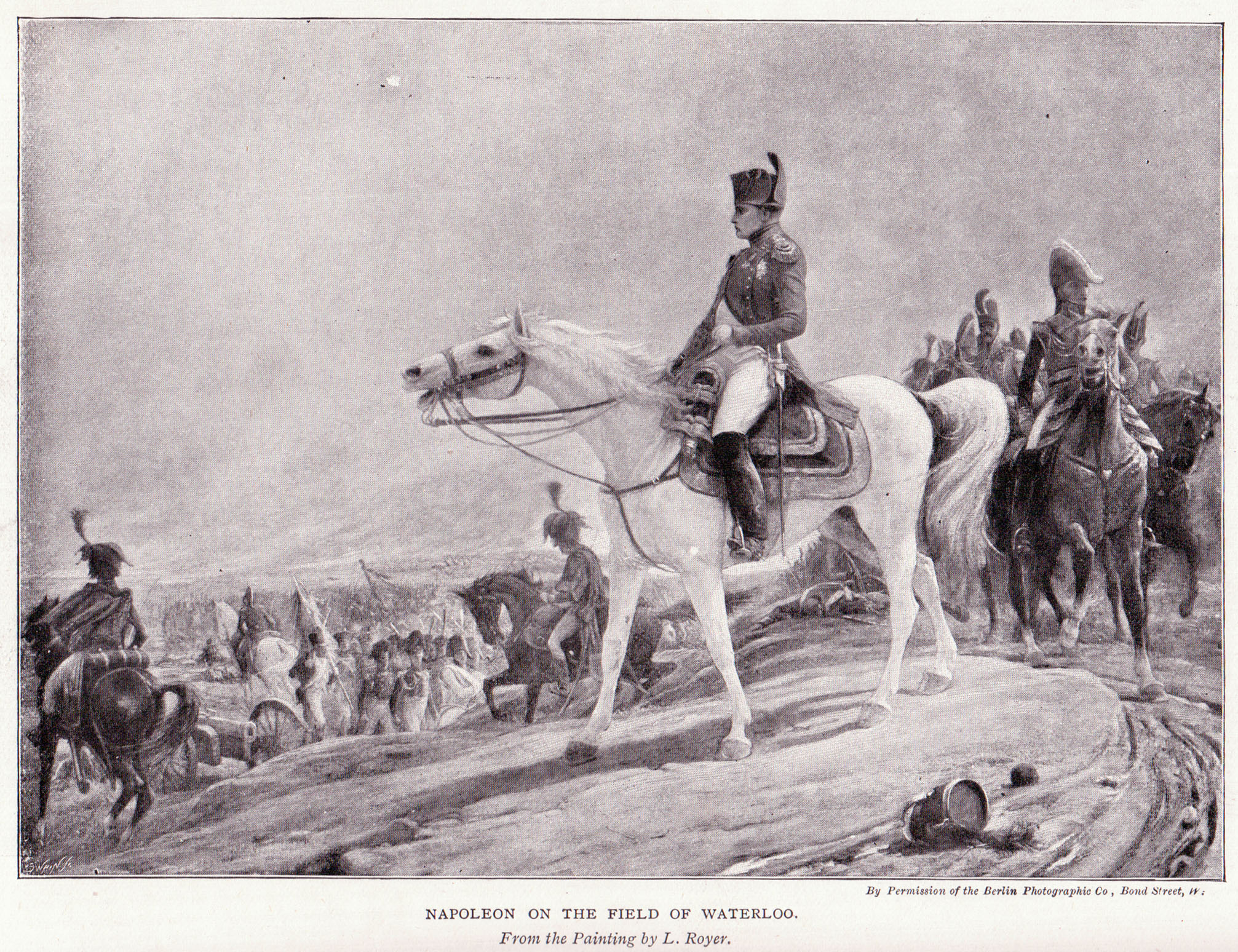 This public domain image is from Harmsworth Magazine vol 2 page 192. The images is titled "Napoleon on the Field of Waterloo" from a painting by L. Royer. Flickr data on 2011-08-16: Tags: images, books, copyright free, public domain, black and white, vintage, magazine, Harmsworth License: CC BY 2.0 User: perpetualplum Sue Clark